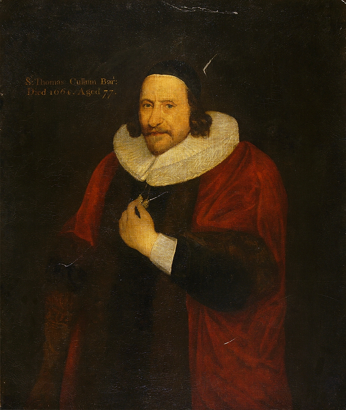 Portrait of Sir Thomas Cullum, 1st Baronet Cullum, a London draper and Suffolk native who had grown rich and served as an alderman and sheriff of the City of London, and later acquired the manors of Hawstead and Hardwick in Suffolk. Oil on canvas, circa 1640. 111 cm x 94 cm. Courtesy of the collections of St Edmundsbury Museums.